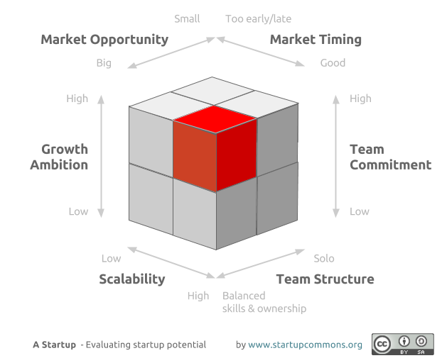 Visualizing the key success factors of a startup venture.